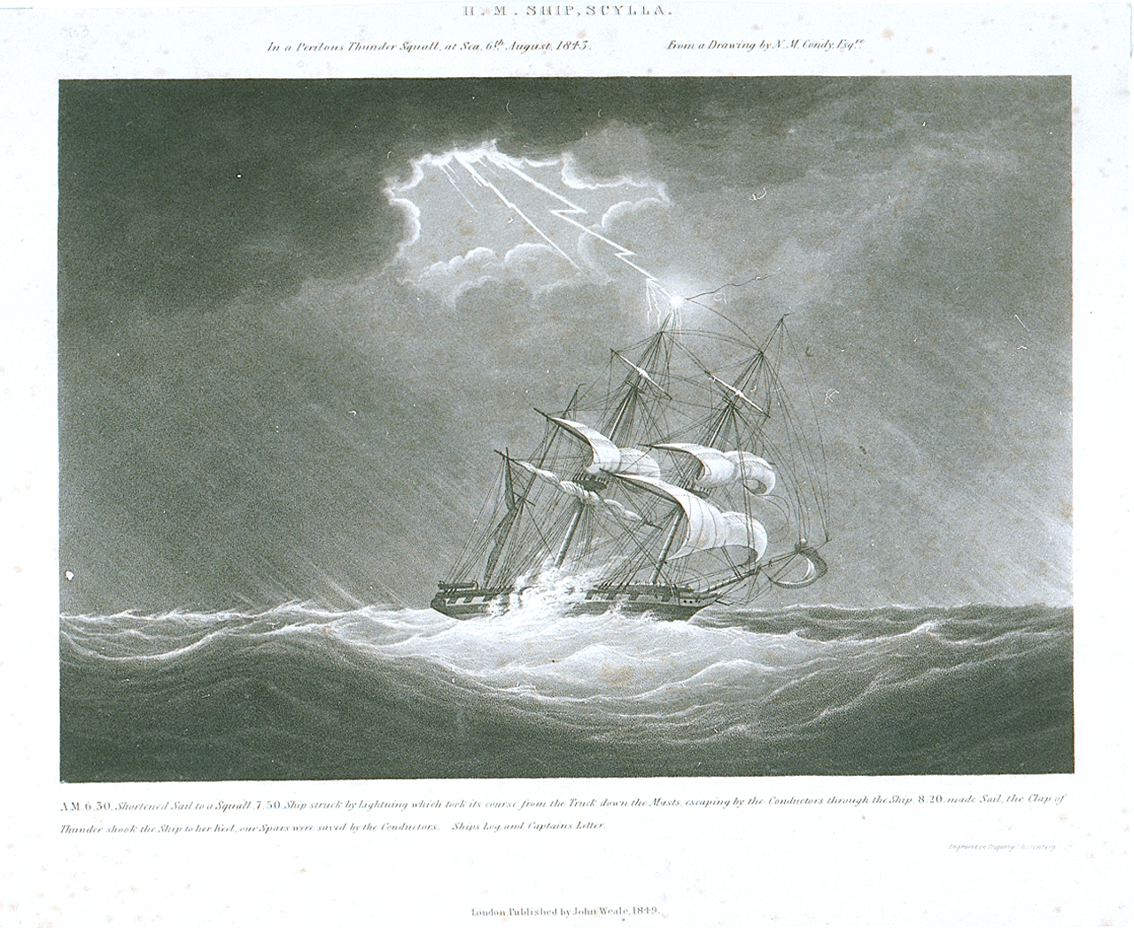 H.M. Ship Scylla. In a Perilous Thunder Squall at sea 6th August 1843. From a Drawing by N.M. Condy Esqre Plate 3.; Text from captain's log below image.